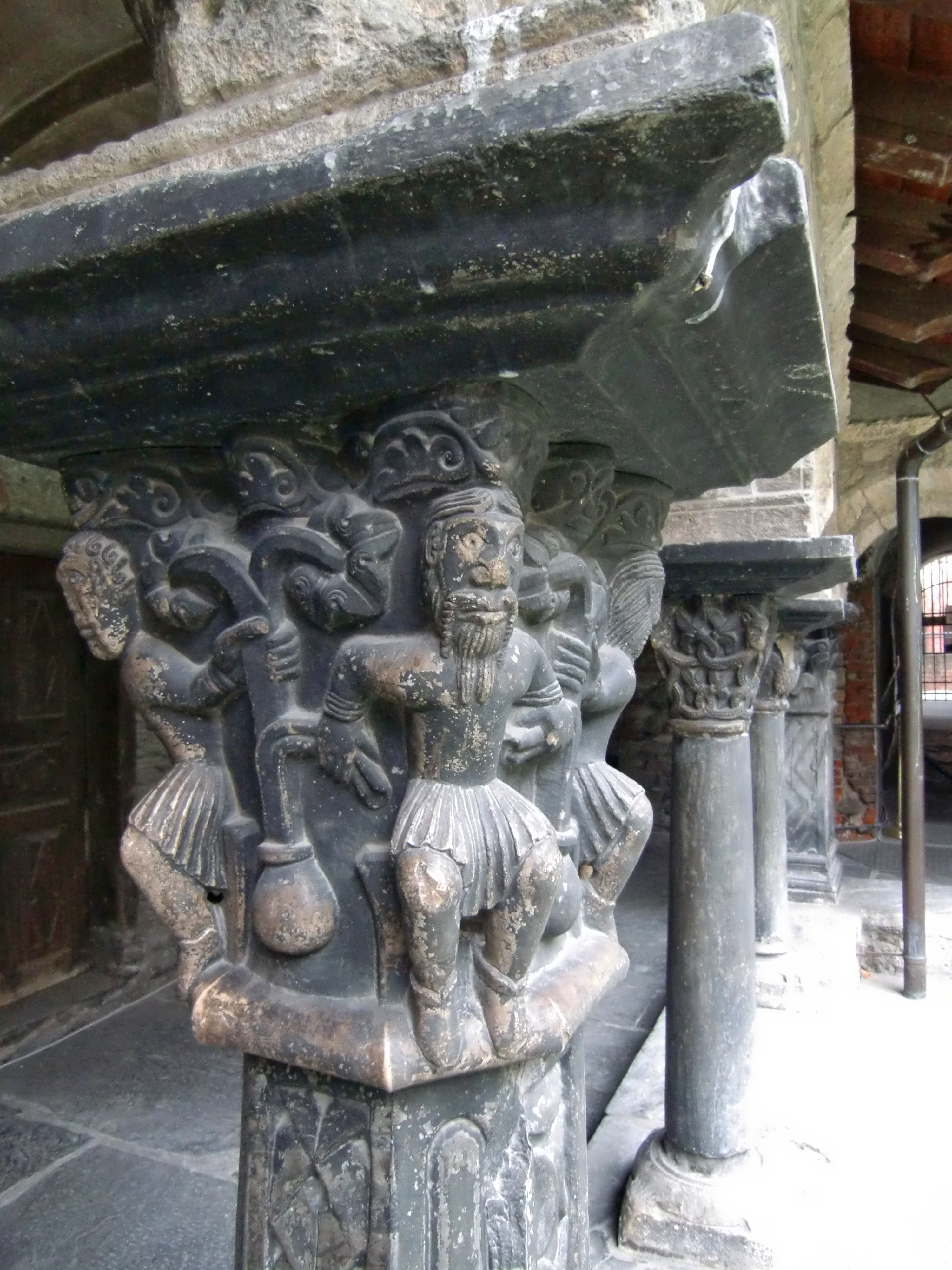 Aosta, cloister of the "Collegiata di Sant'Orso", XII century, romanesque capital, (decorative composition with human figures)